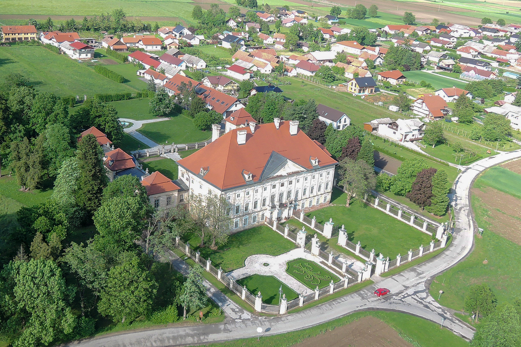 Dornava Manor, the largest and most exquisite baroque manor in Slovenia. A castle was built here in the early 15th century, and destroyed in the fire in 1695. The property was bought by count Attems and completely rebuilt in Baroque style in 1720. Dornava Manor is one of the most important secular buildings of the late Baroque period in Slovenia, a cultural property of national importance. It stands on the long axis of one of the last preserved baroque parks with a linden tree-lined avenue. Kite aerial photo, Nikon P330 on a D90 BW mini delta kite.